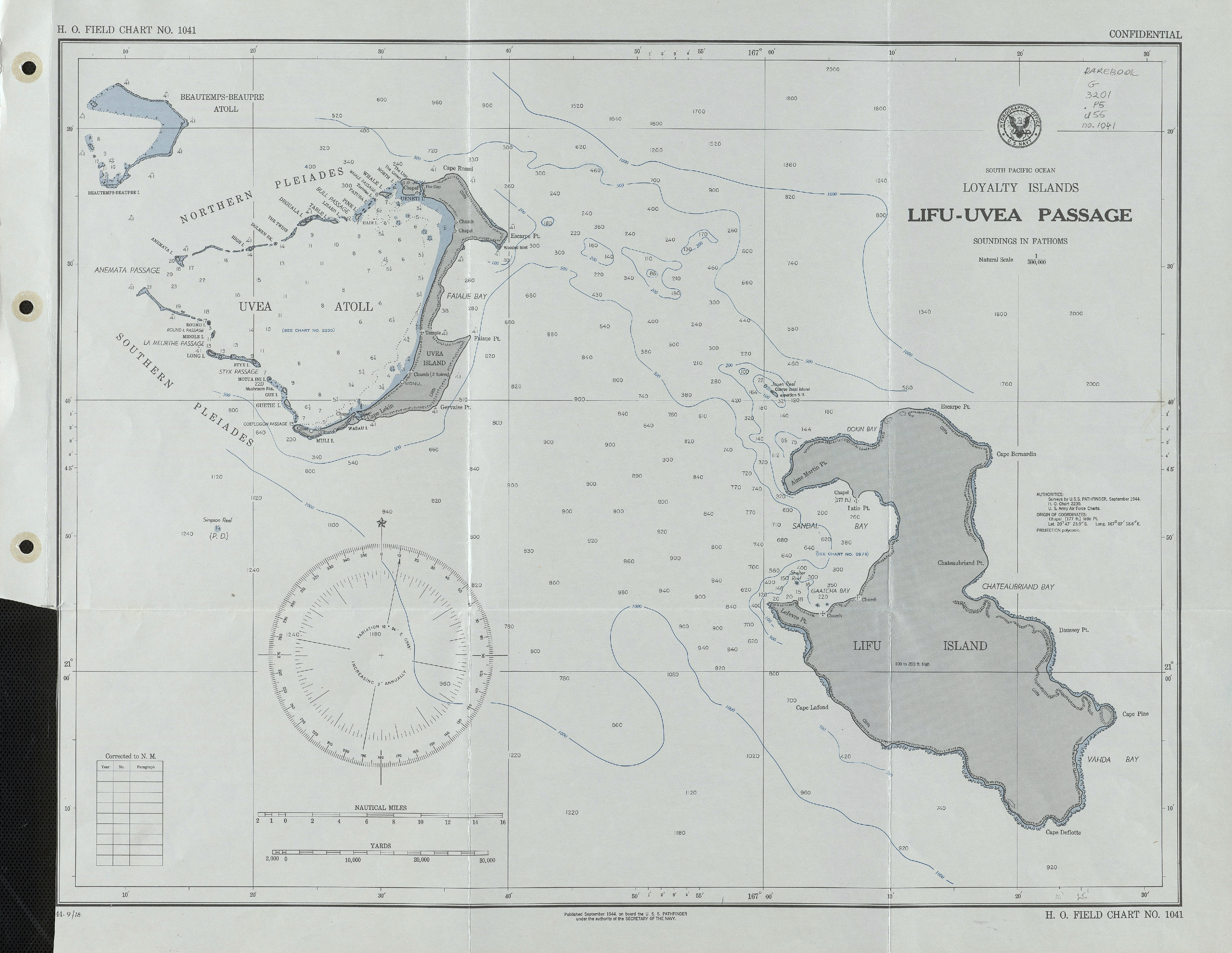 marine chart of Ouvea and Lifou, Loyalty Islands, New Caledonia, West Pacific Ocean